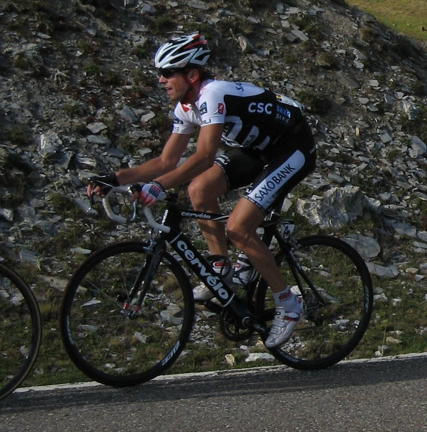 Jurgen Van Goolen, 2008 Vuelta a España, 8th stage, Port de la Bonaigua, Spain.